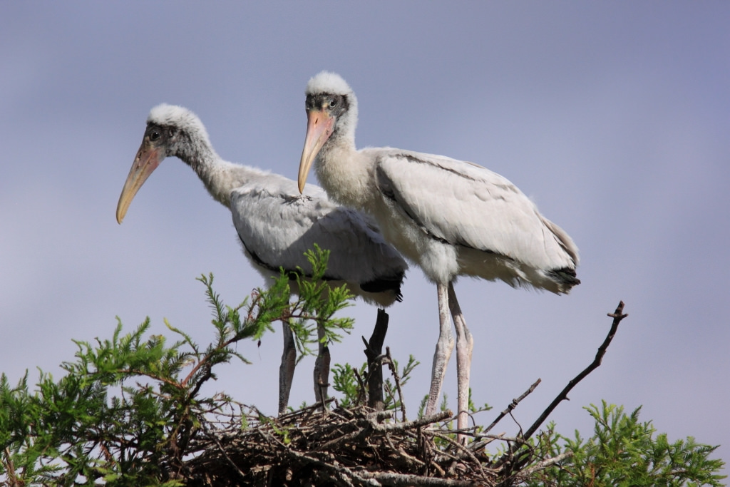 Two wood stork juveniles at a nest.